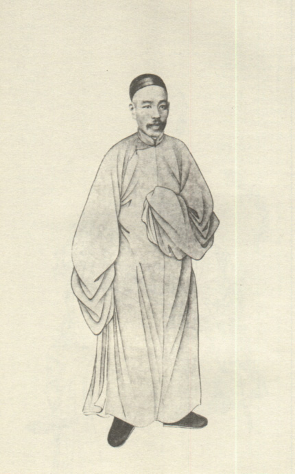 HUANG Zunxian, politician and scholar of the Qing Dynasty.